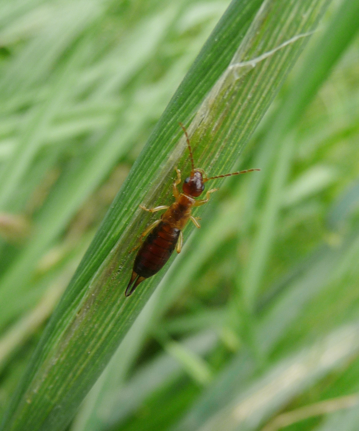 Apterygida media, near Livorno, Italy